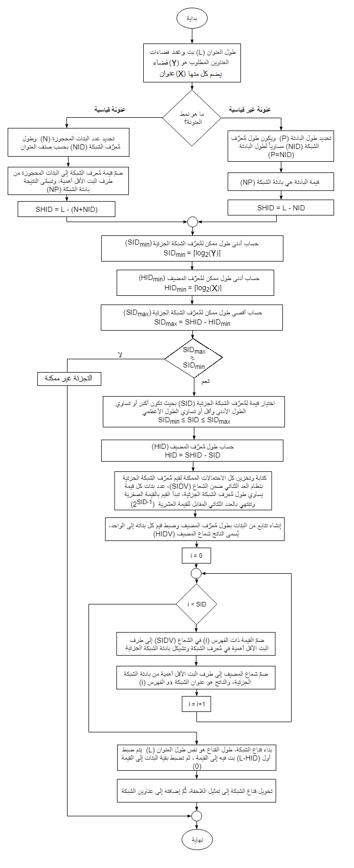 An address space subnetting algorithm, that is used when a specific number of address spaces that have a specific size is needed.